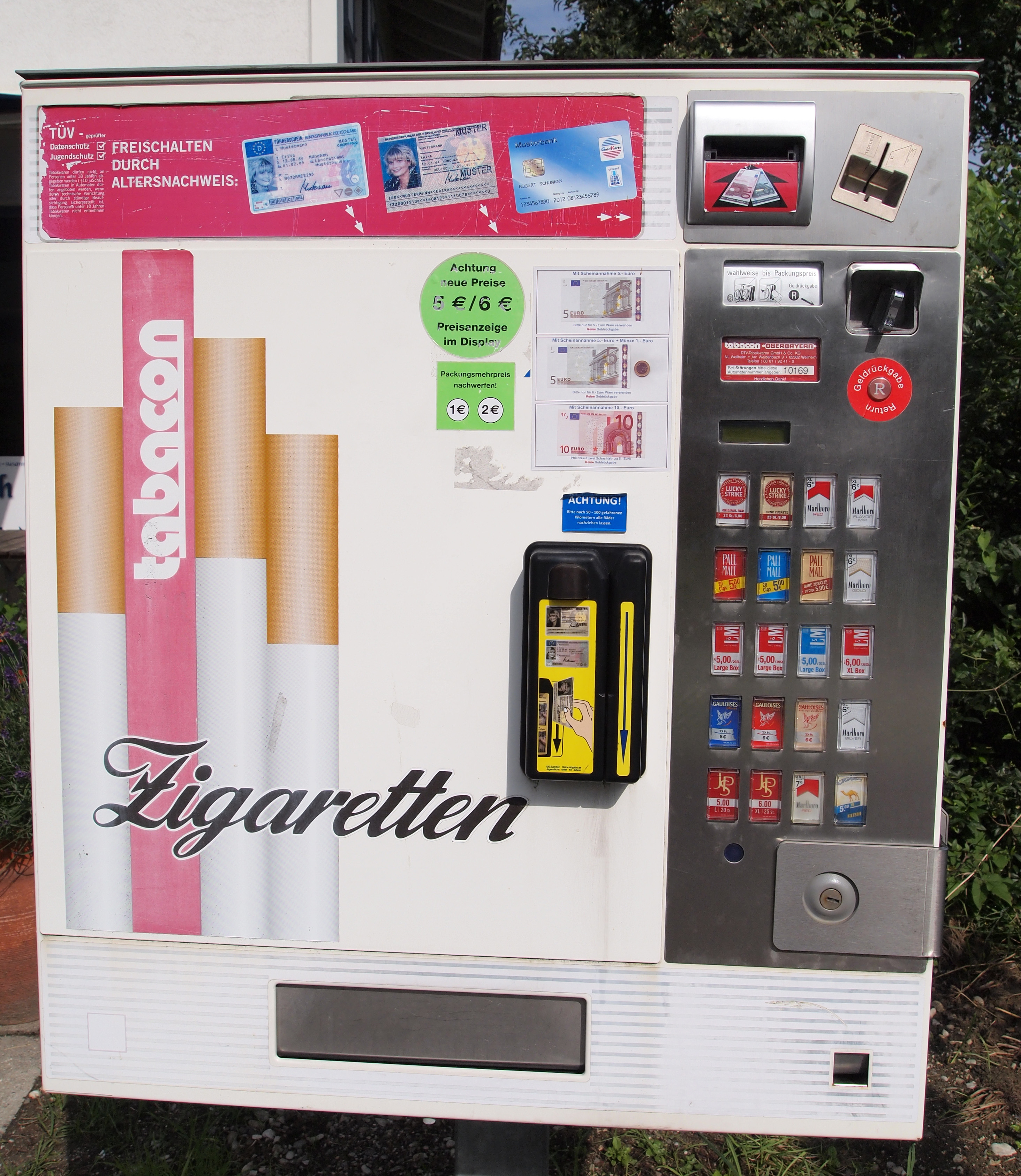 Zigaretten machine in Garmisch-Partenkirchen. This photograph was taken with an Olympus E-PL1